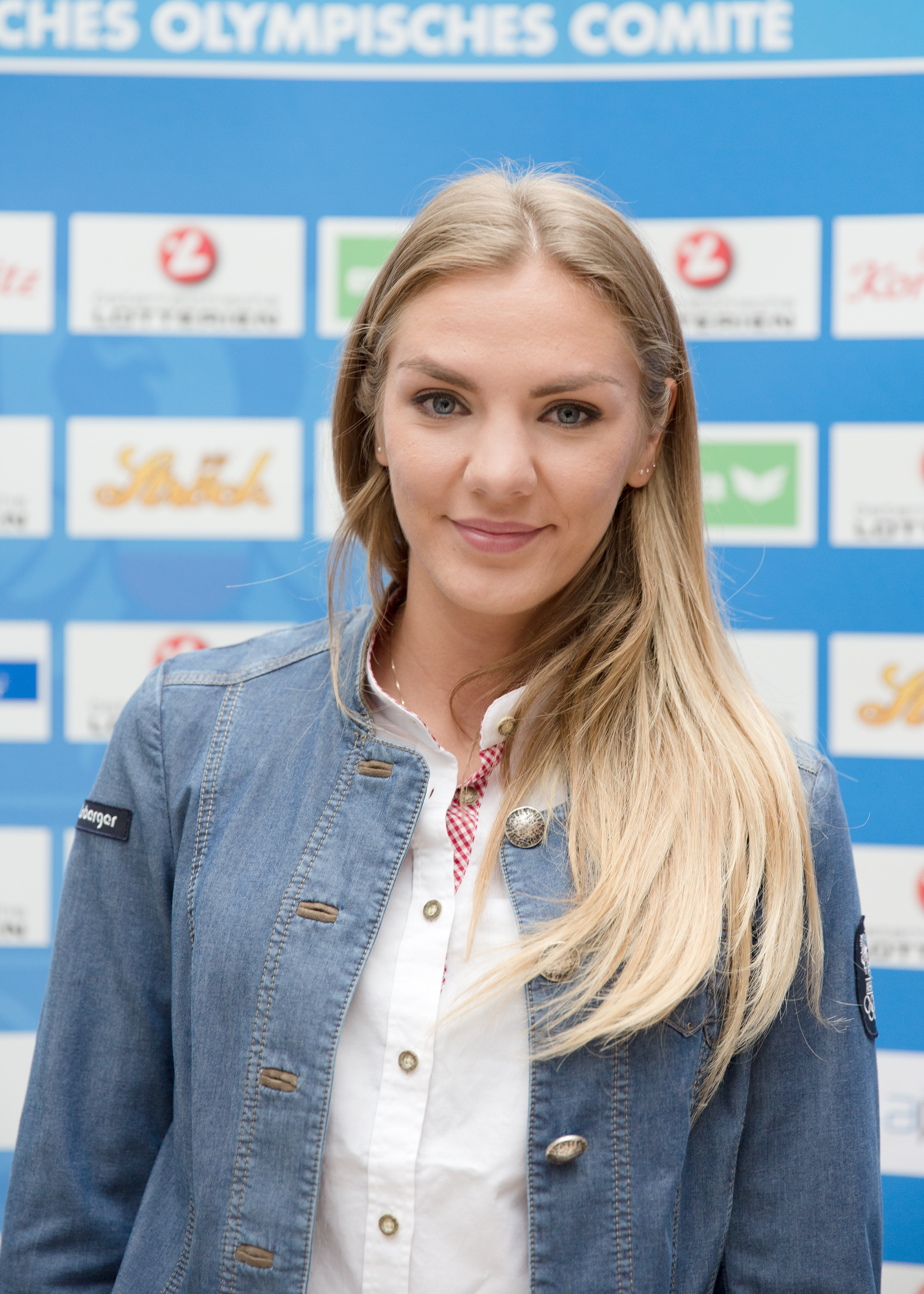 Ivona Dadic at the hand-out of the Austrian teams official attire for the 2016 Summer Olympics (Marriott, Vienna).